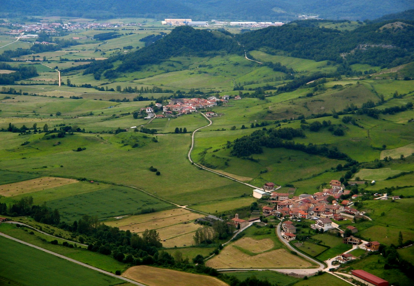 Villages Unanu and Dorrao at the foot of Mt. Beriain in the Basque Country